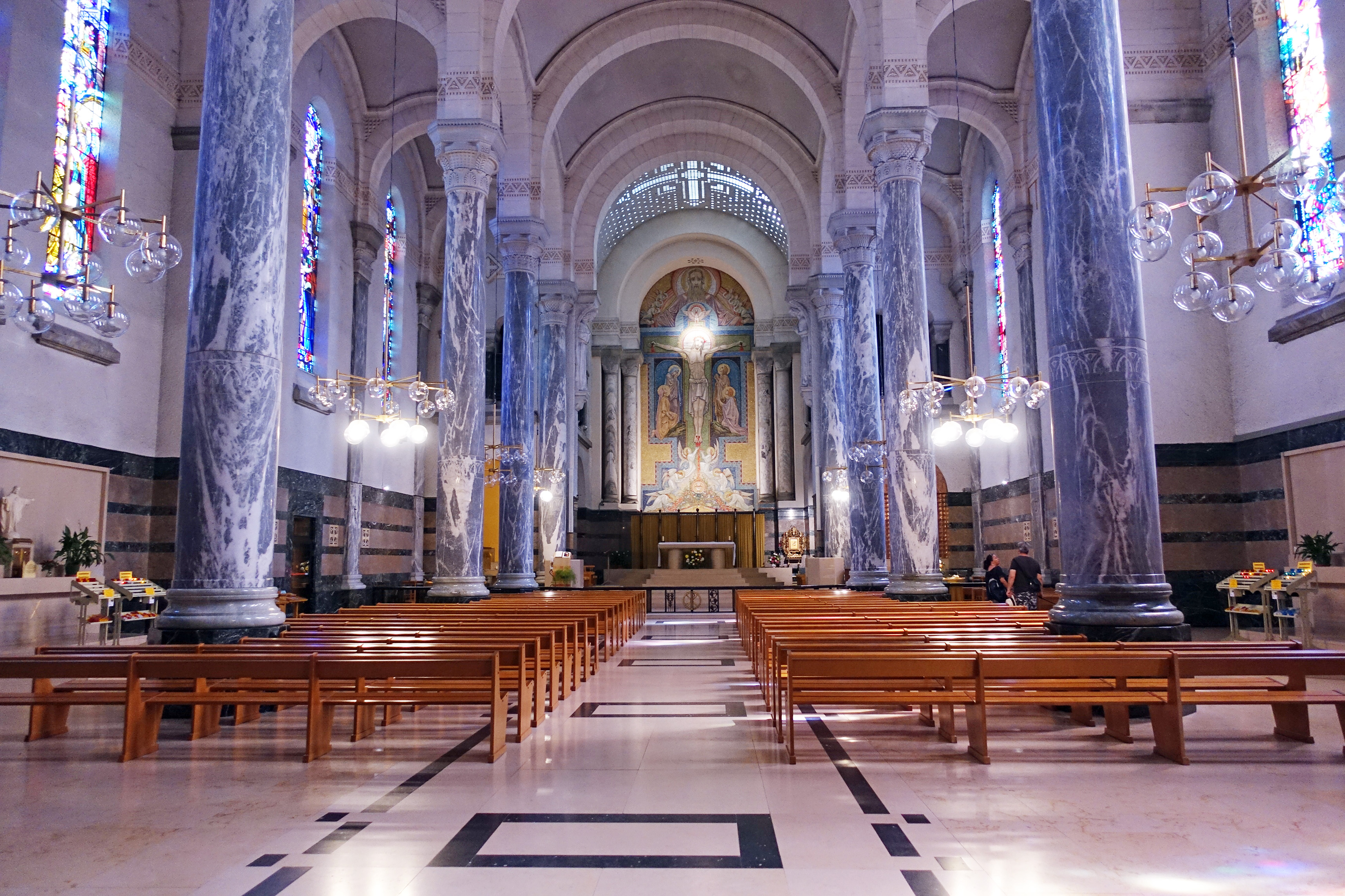 Basilique de la Visitation in Annecy.